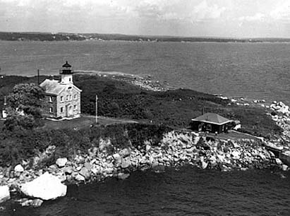 Great Captain Island Lighthouse in Greenwich (U.S. Coast Guard photo)